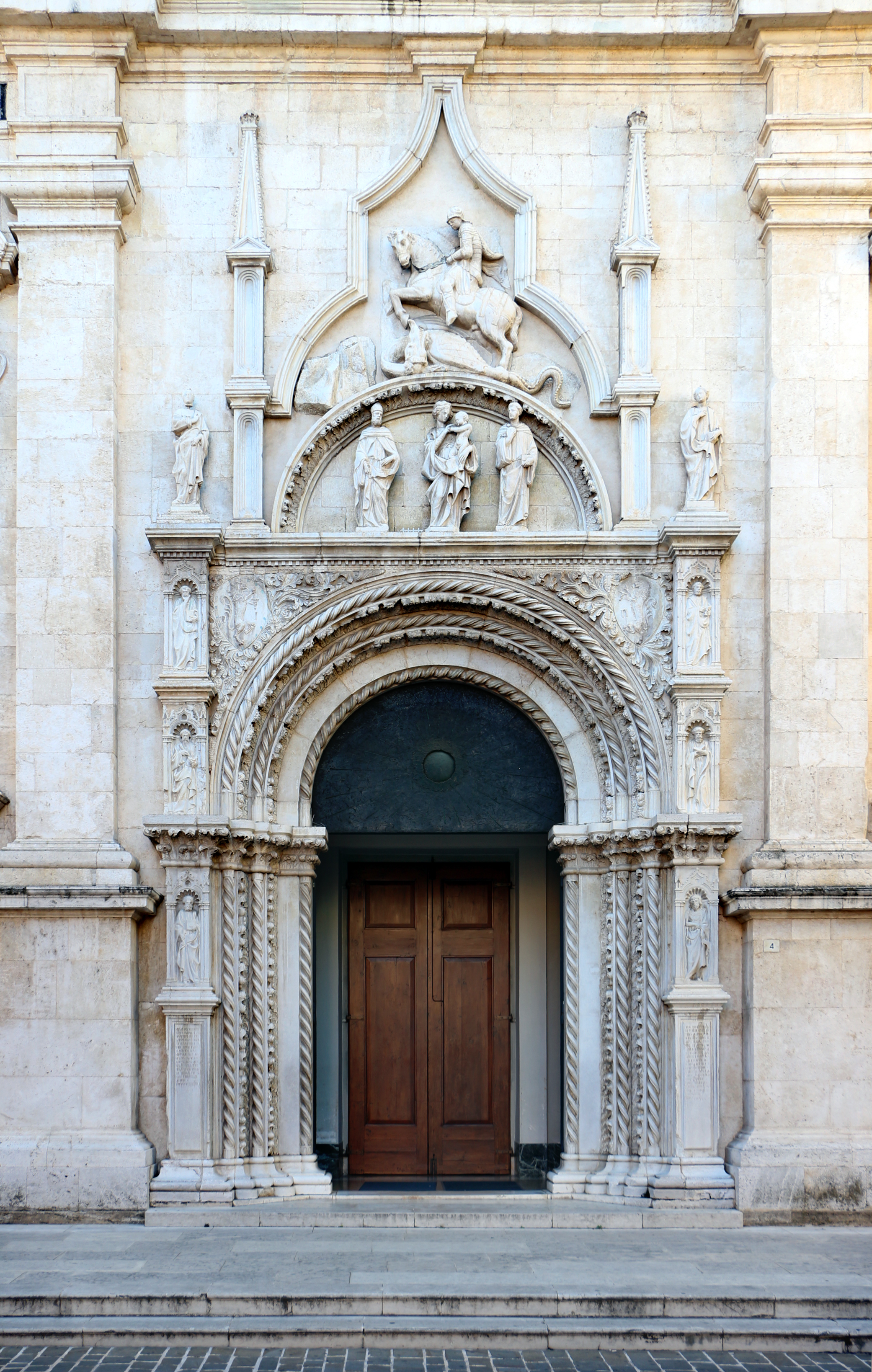 Basilica di San Nicola da Tolentino (Tolentino)